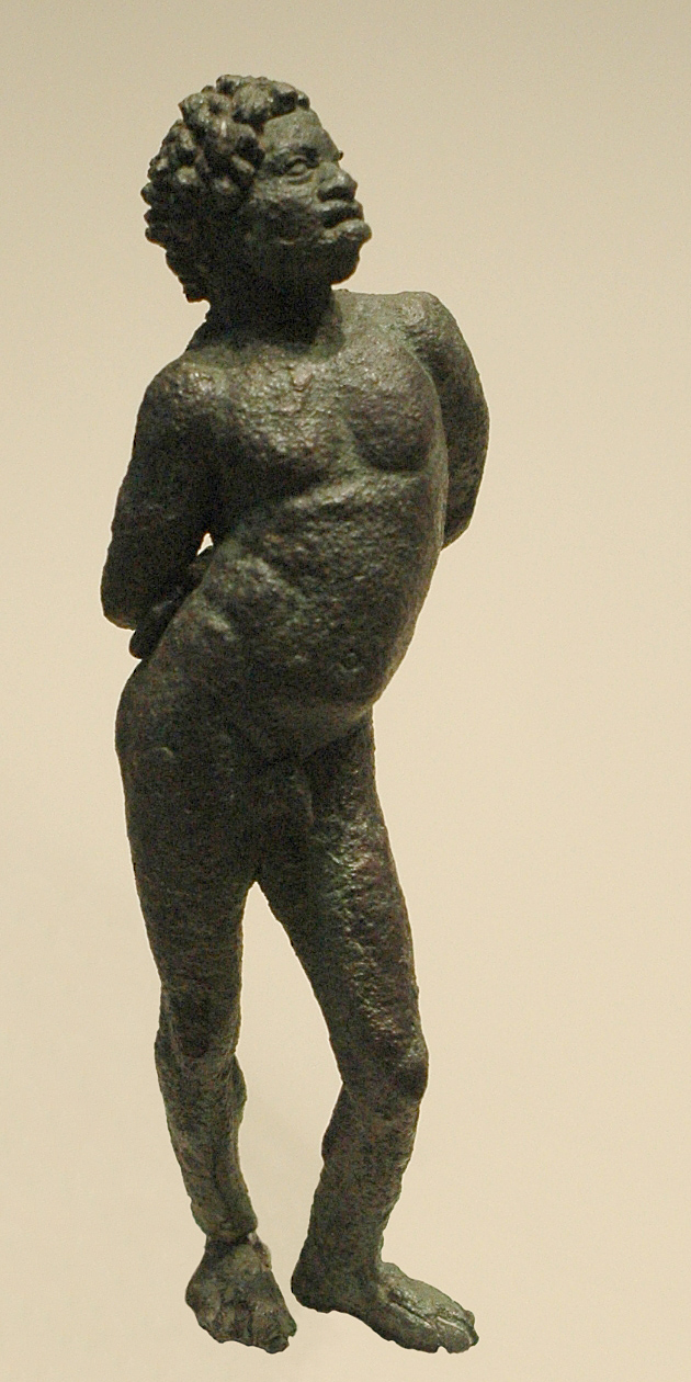 Black youth with hands bound behing his back. Found in the Fayum, near Memphis, Egypt, bronze, 2nd–1st century BC.